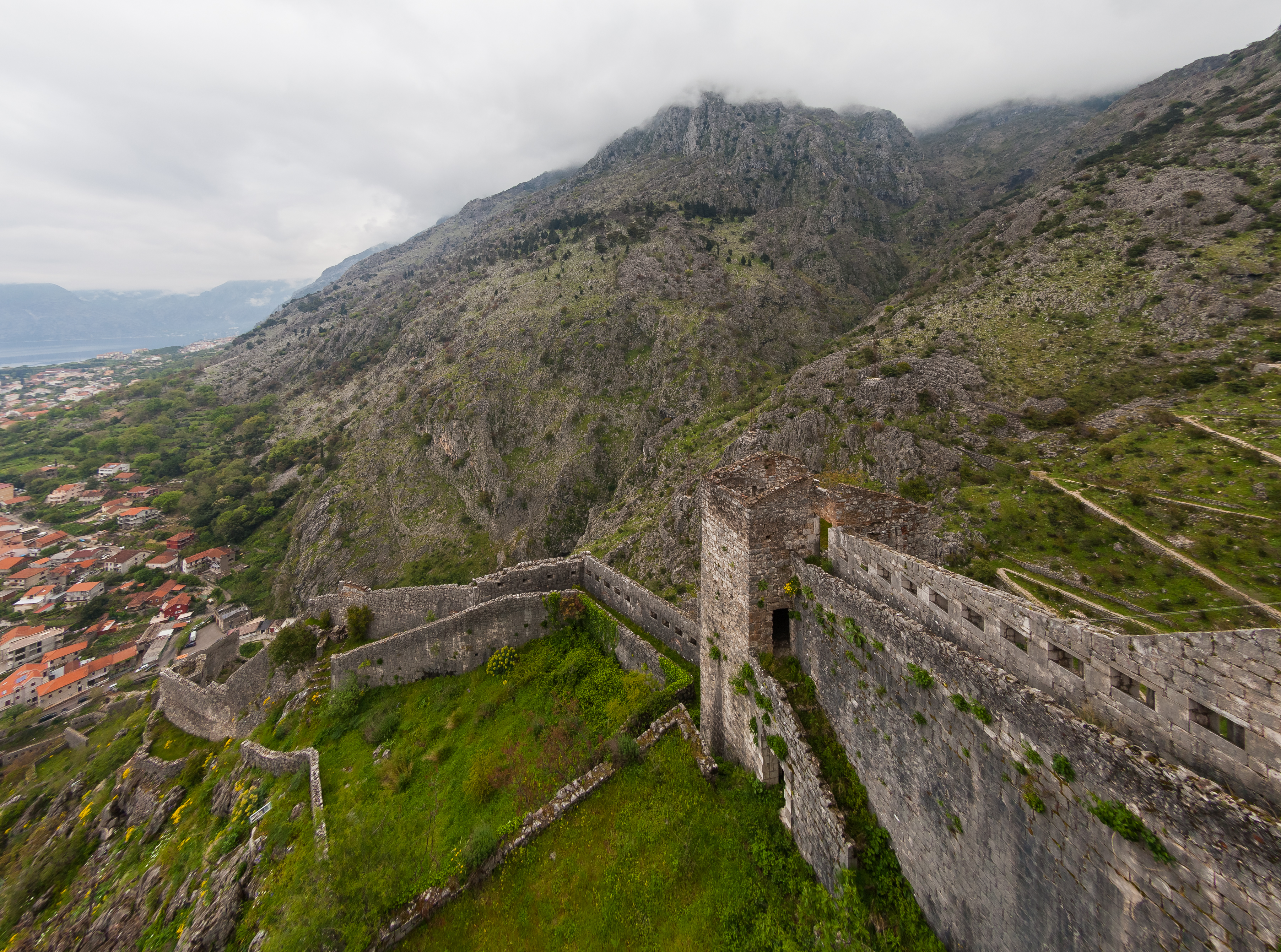 Castle of St. John, Kotor, Bay of Kotor, Montenegro